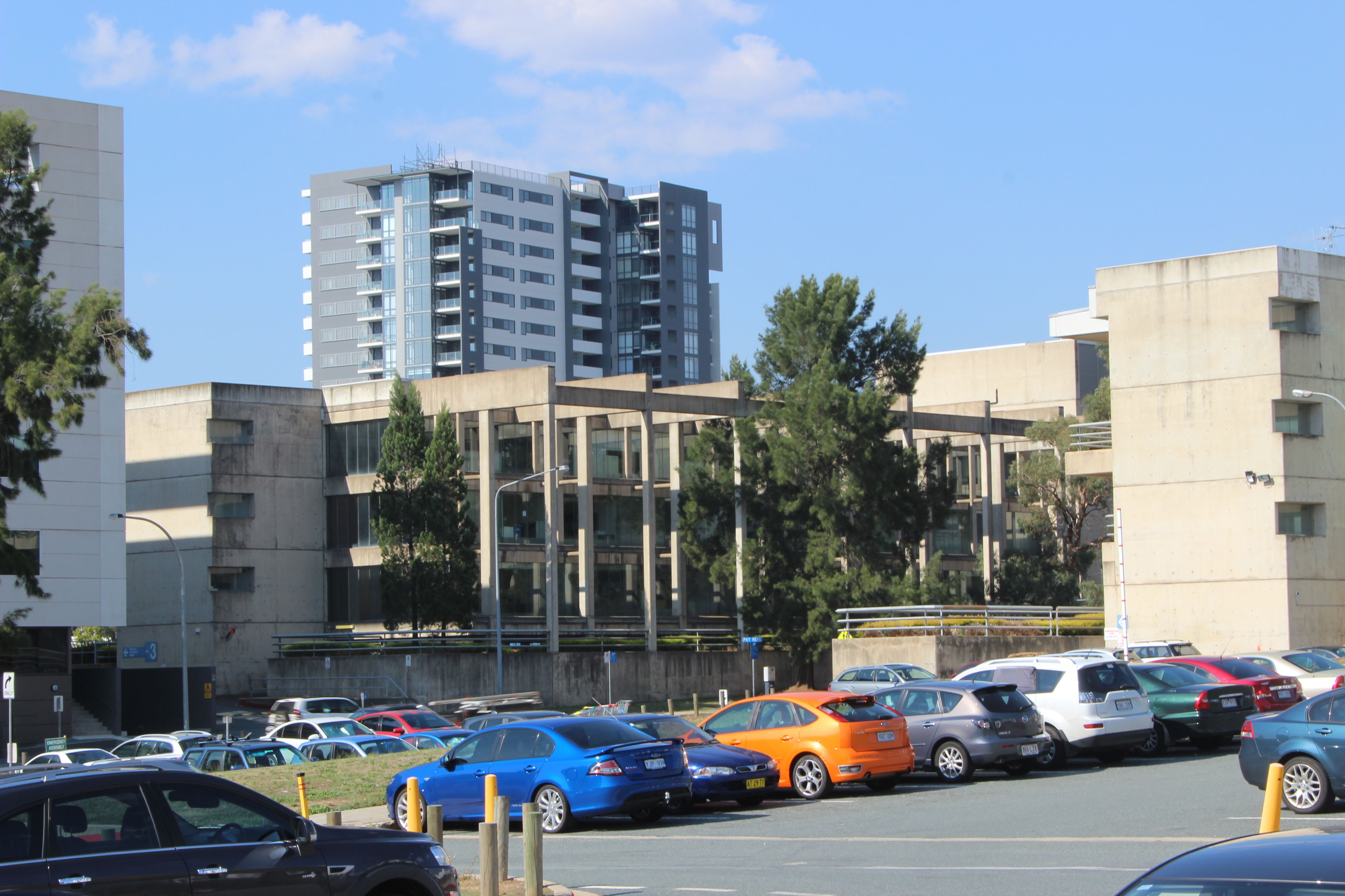 Cameron Offices Wing 3. The end of Wing 4 is partially visible in the far right. Altitude Apartments can be seen as the tall tower in the background.